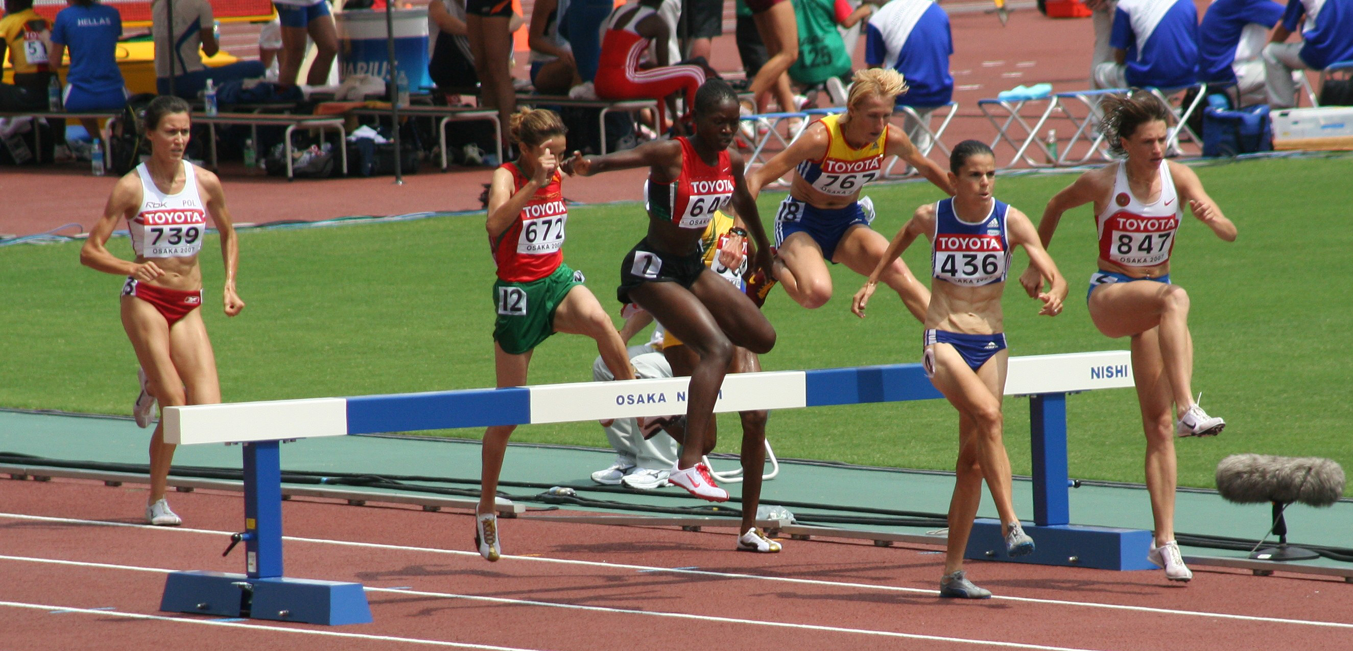 World Athletics Championships 2007 in Osaka - Women's 3000 meter steeplechase 3rd heat. Image includes Katarzyna Kowalska (739), Hanane Ouhaddou (672), Ruth Bisibori Nyangau (646), Cristina Casandra (767), Sophie Duarte (436), Yekaterina Volkova (847)